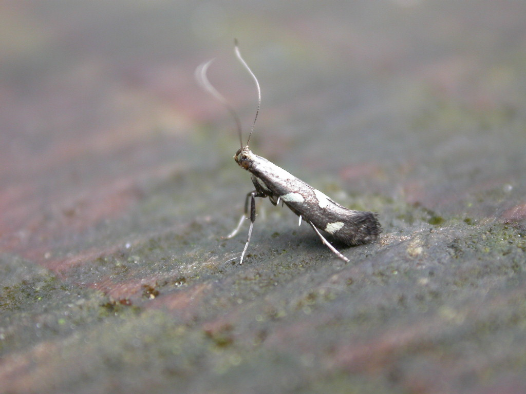 Calybites phasianipennella, to MV light, Hellerup, Denmark, 29 July 2005